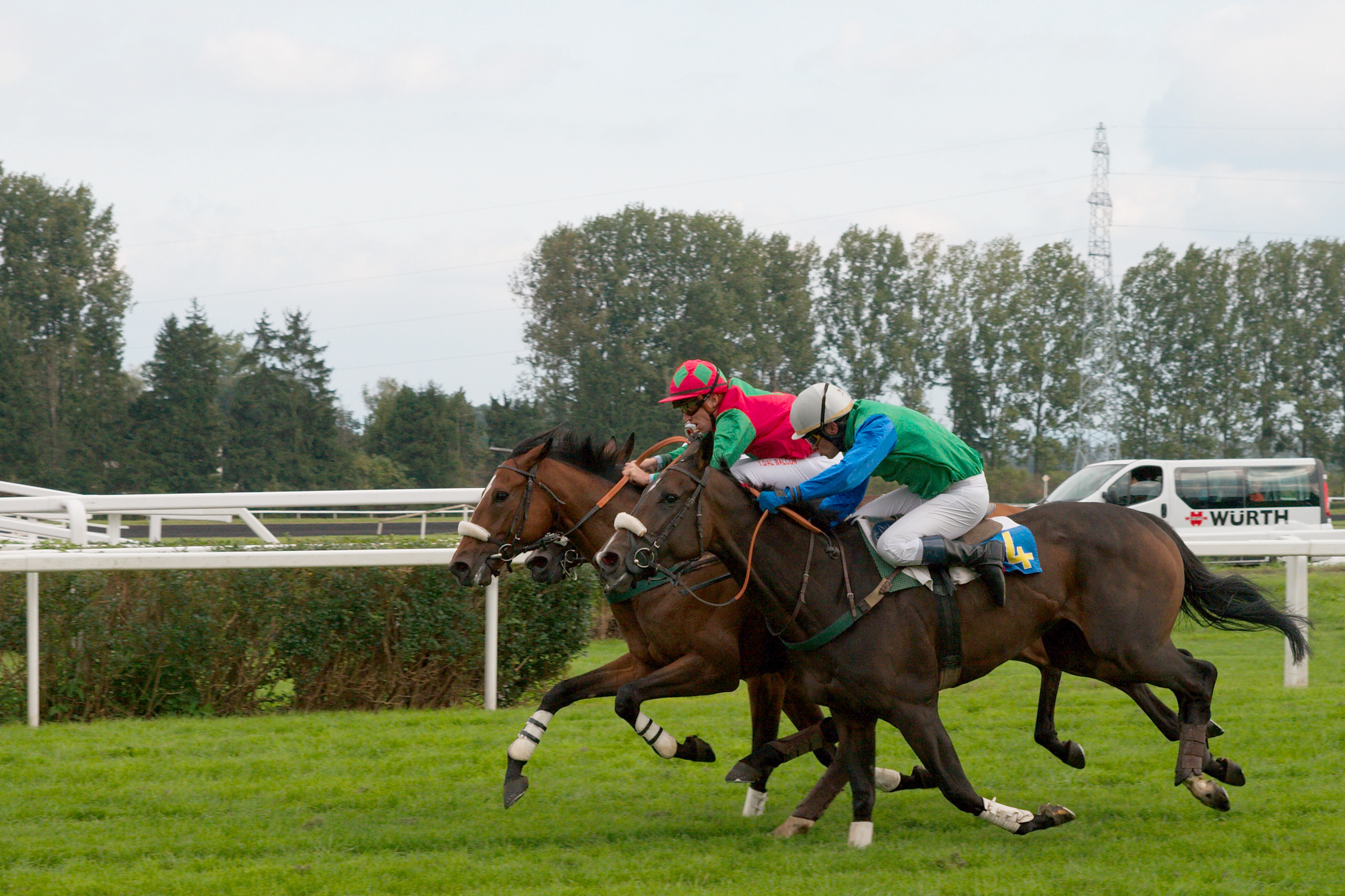 Arriving in a horse race in Strasbourg on September 14, 2008.